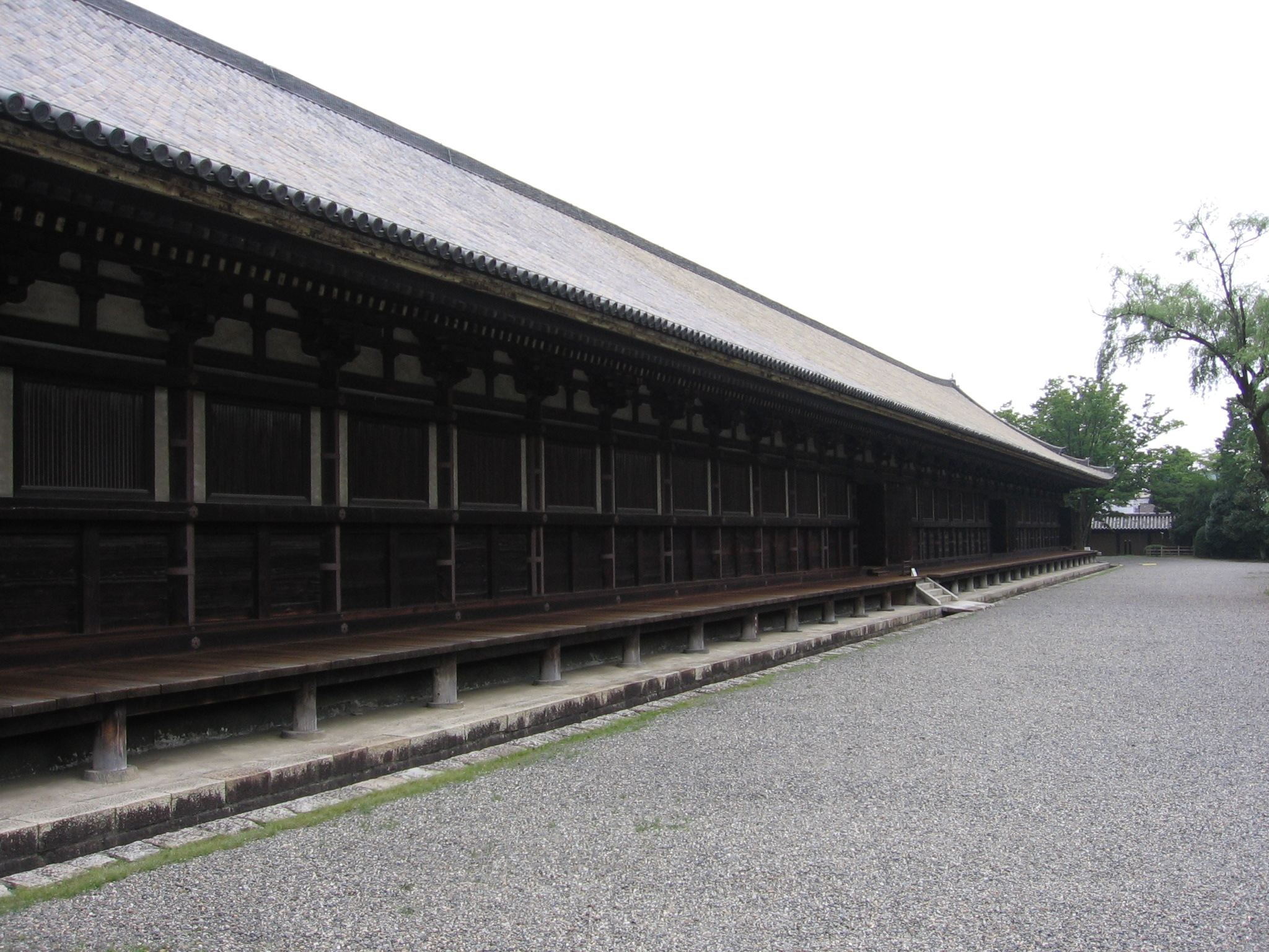 Made by Peter 111 at Sanjusangendô temple, Kyoto in July 2005